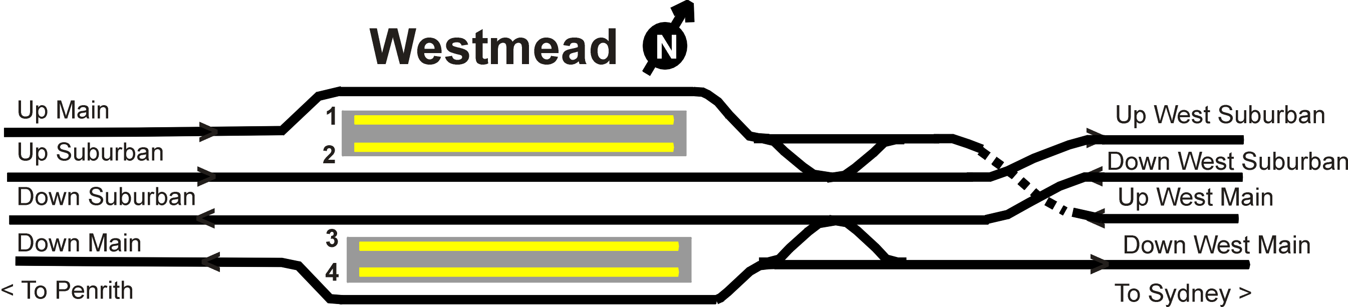 Track arrangement at Westmead railway station.